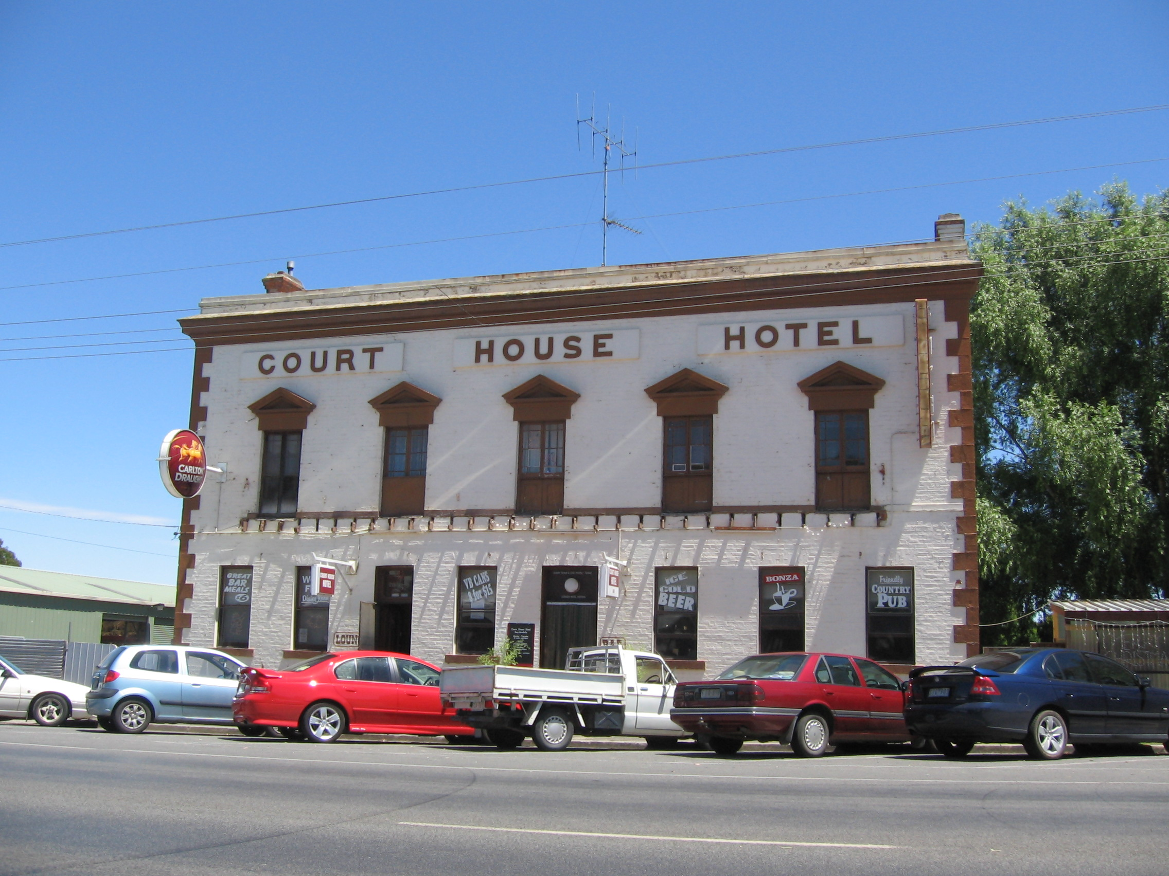 Court House Hotel in Smythedale, Victoria